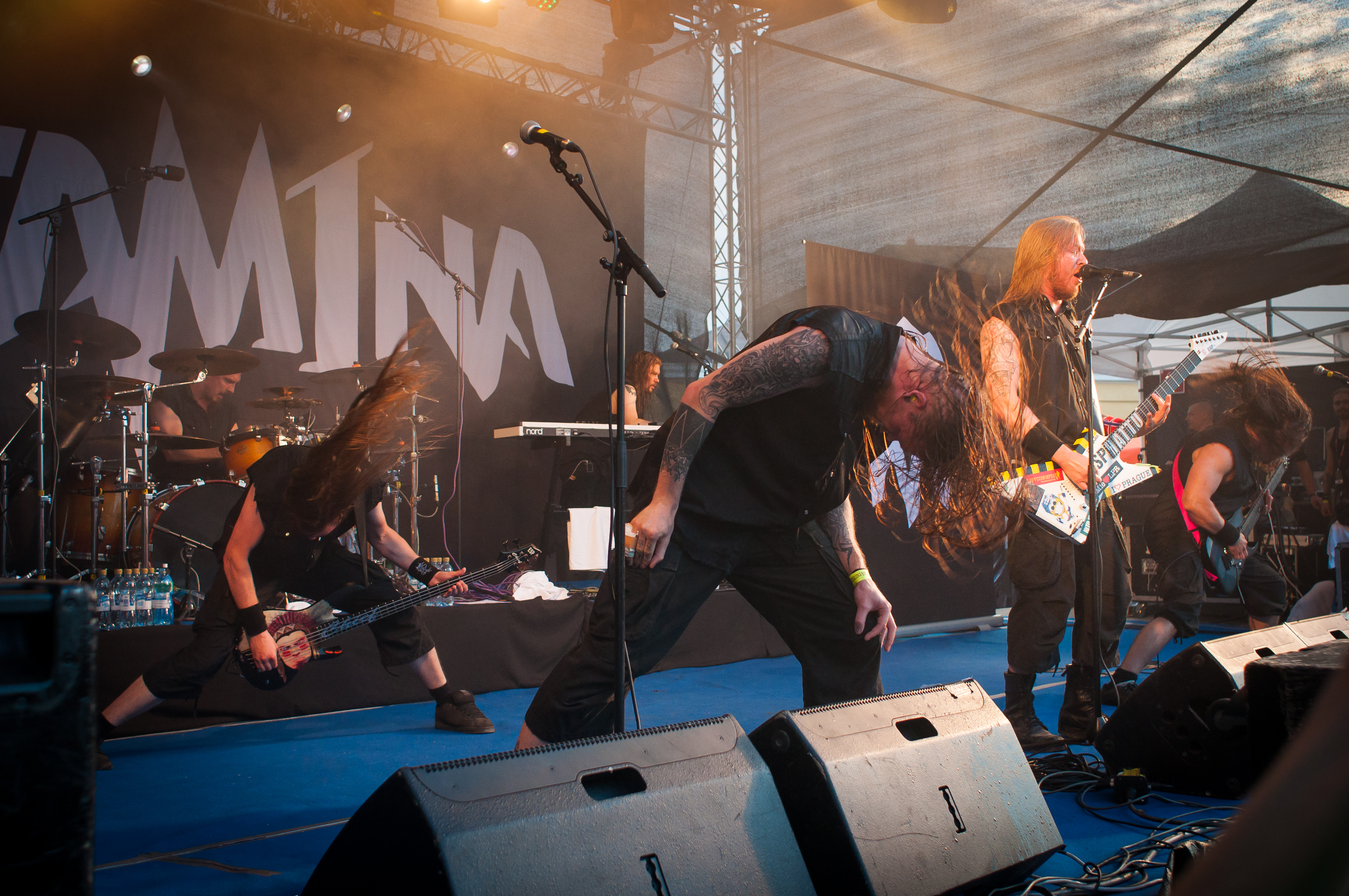 Finnish metal band Stam1na performing at the 2014 Rakuuna Rock festival in Lappeenranta, Finland.